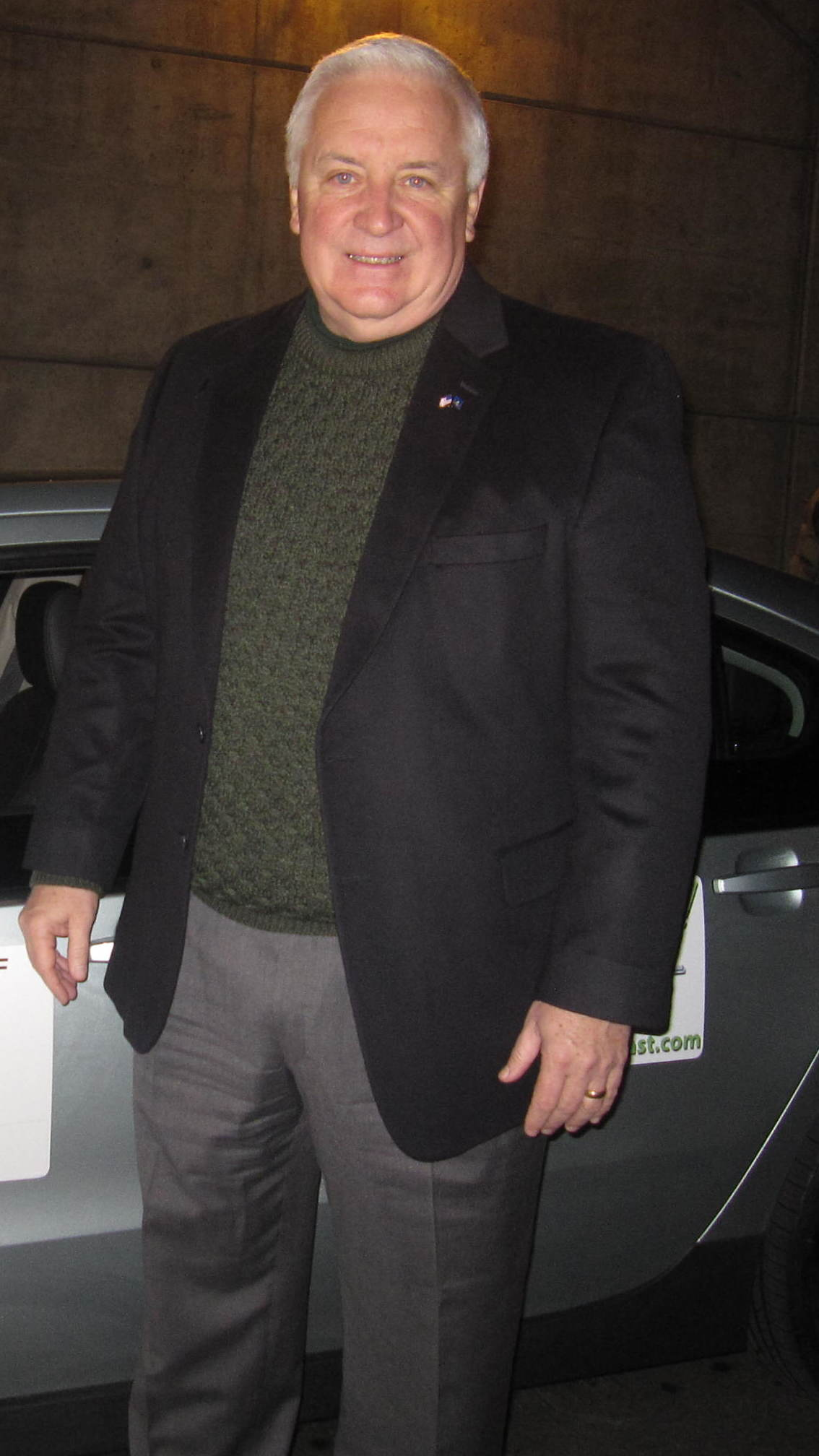 Pennsylvania Governor Tom Corbett Pittsburgh St. Patrick's Day Parade, posig with an electric car